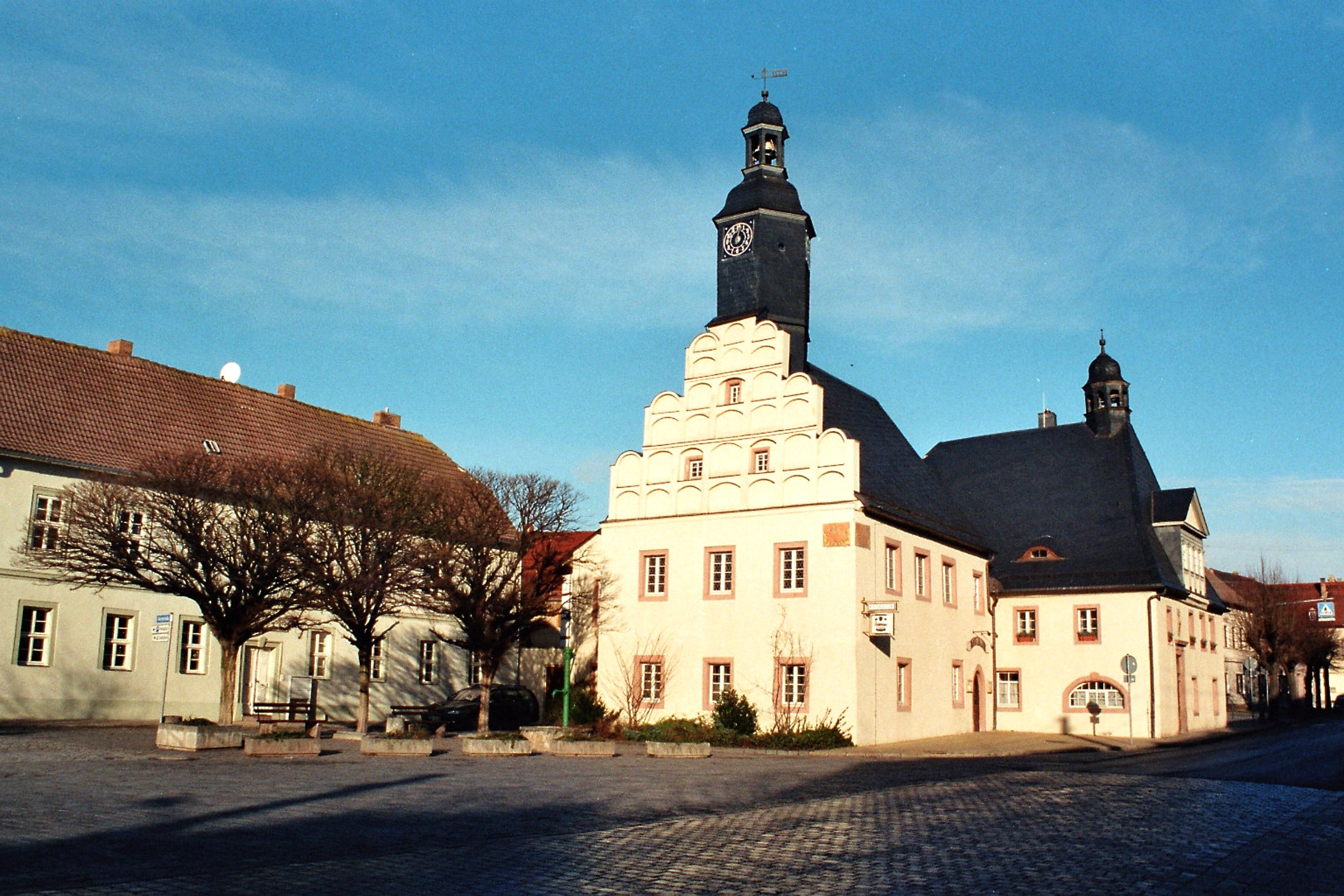 Allstedt, the town hall This is a photograph of an architectural monument. 30592